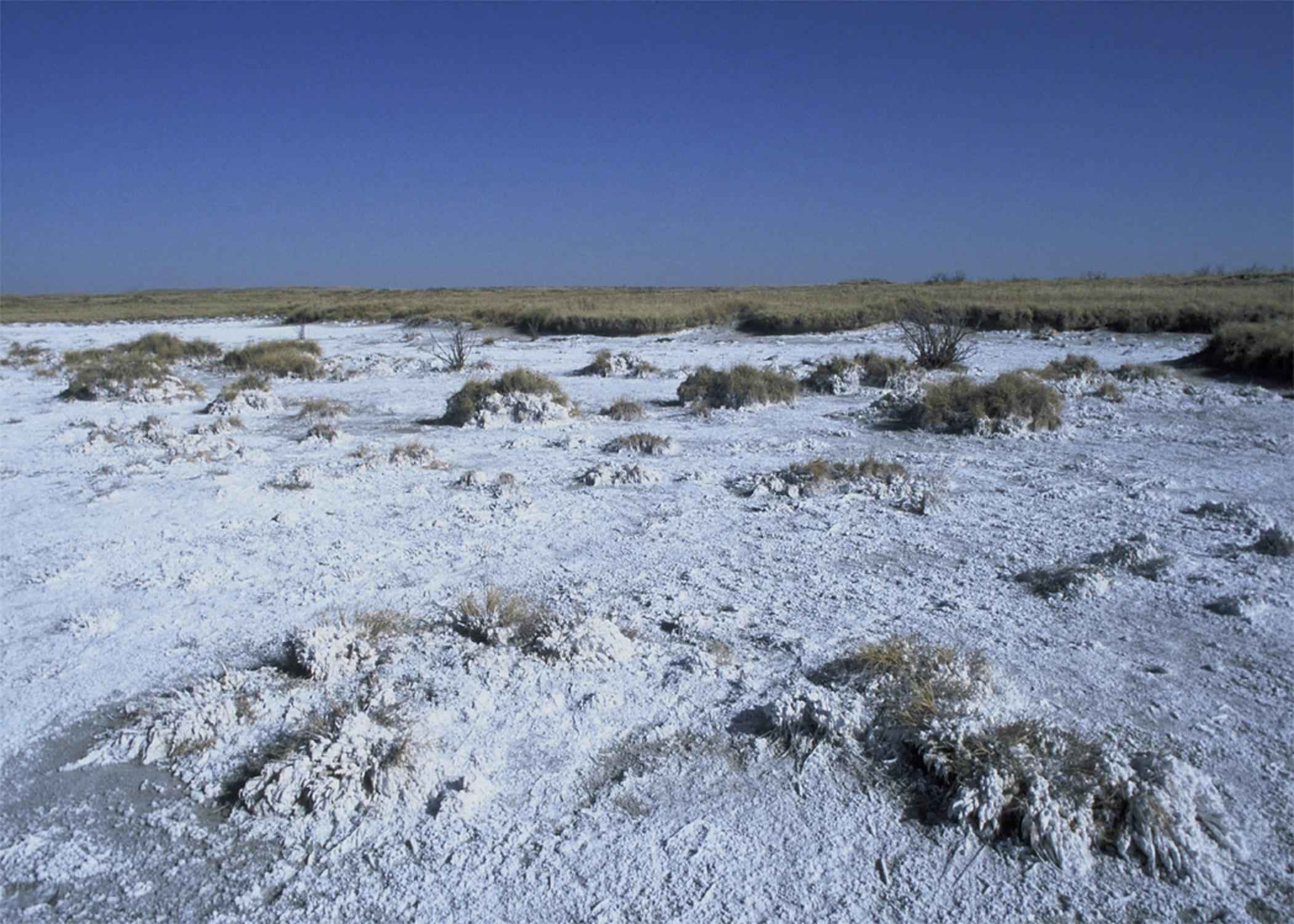 Image title: Dry yellow grass covered with snow in winter Image from Public domain images website